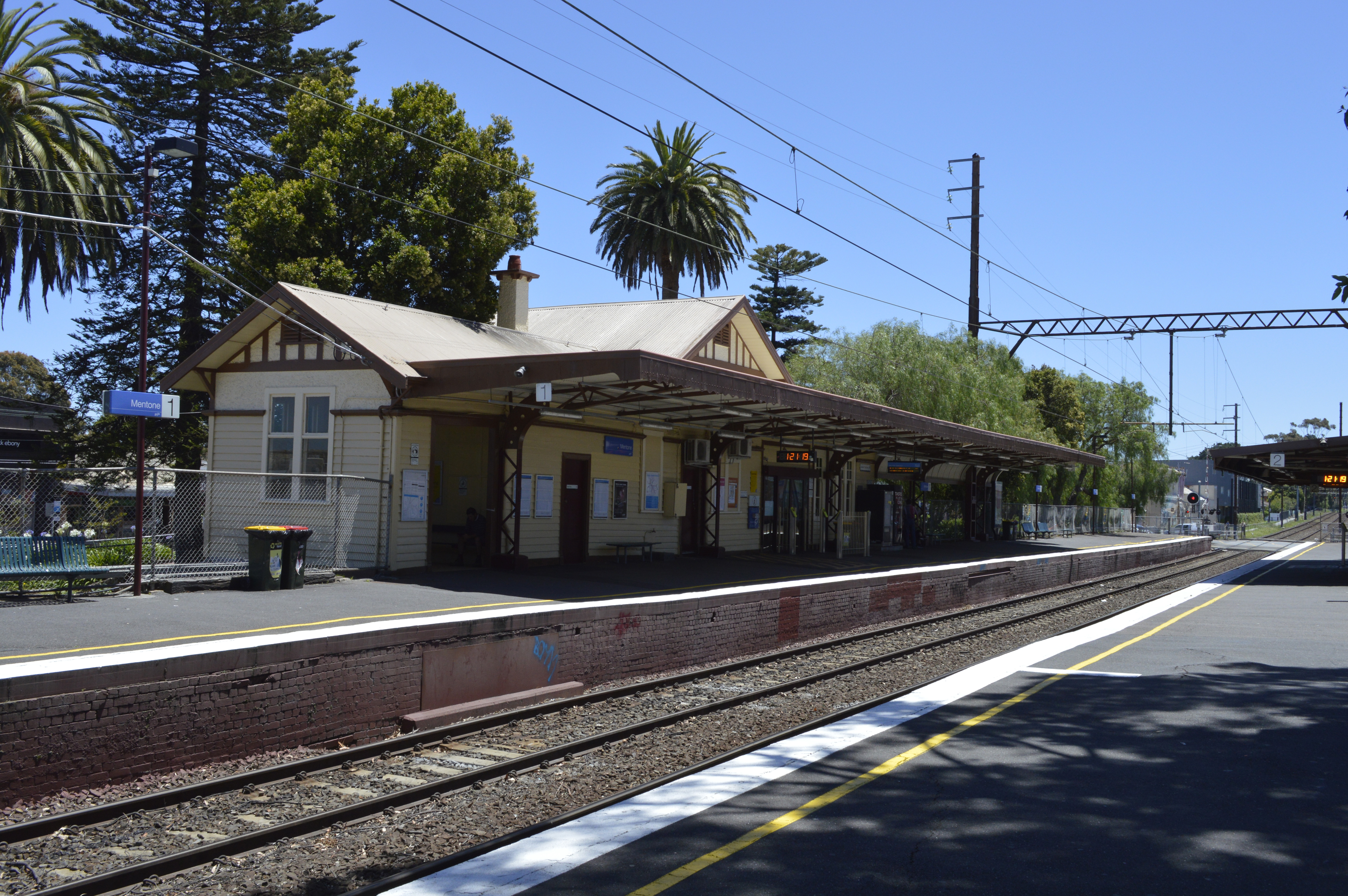 The building on platform 1.